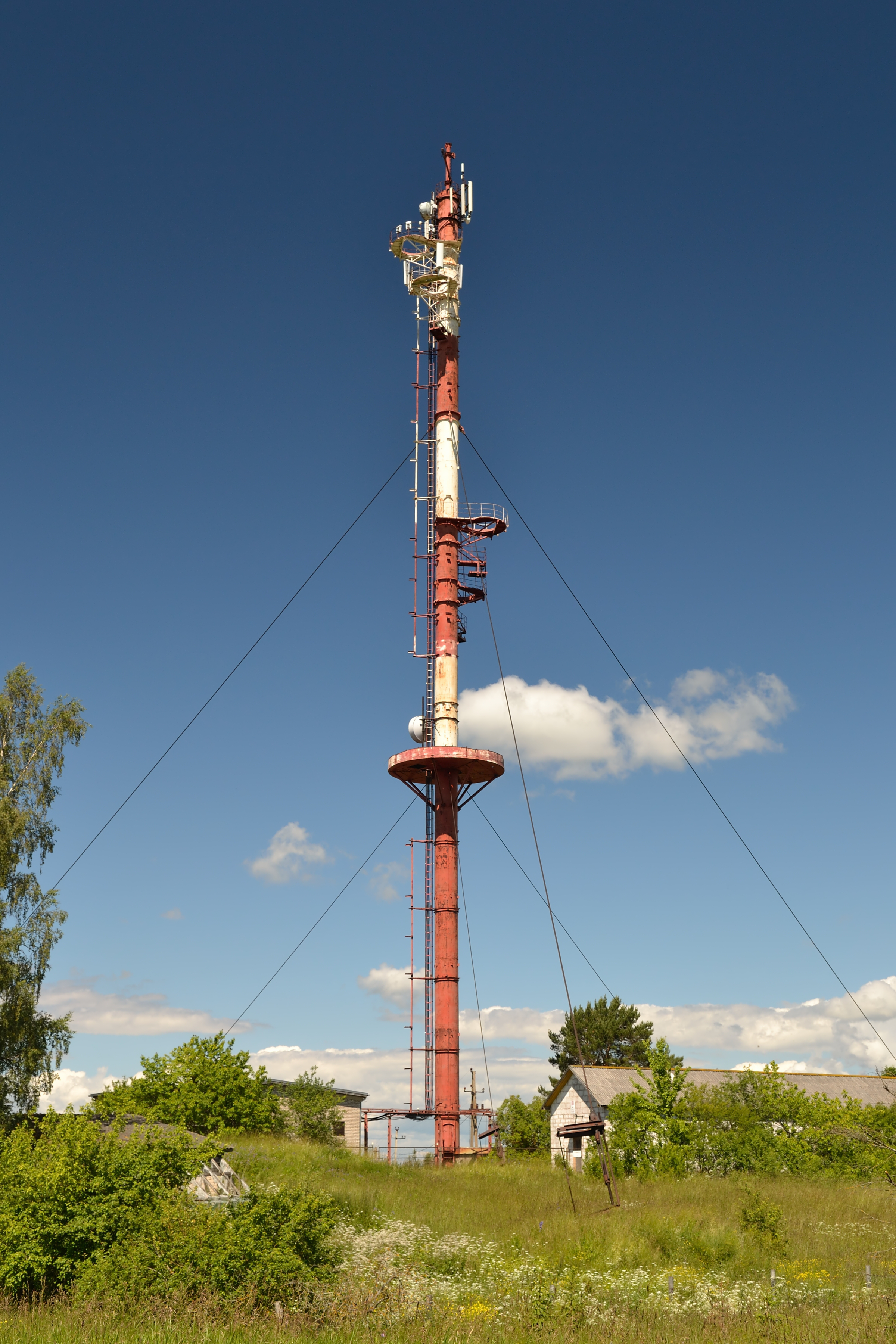 Communication mast in Kõduküla